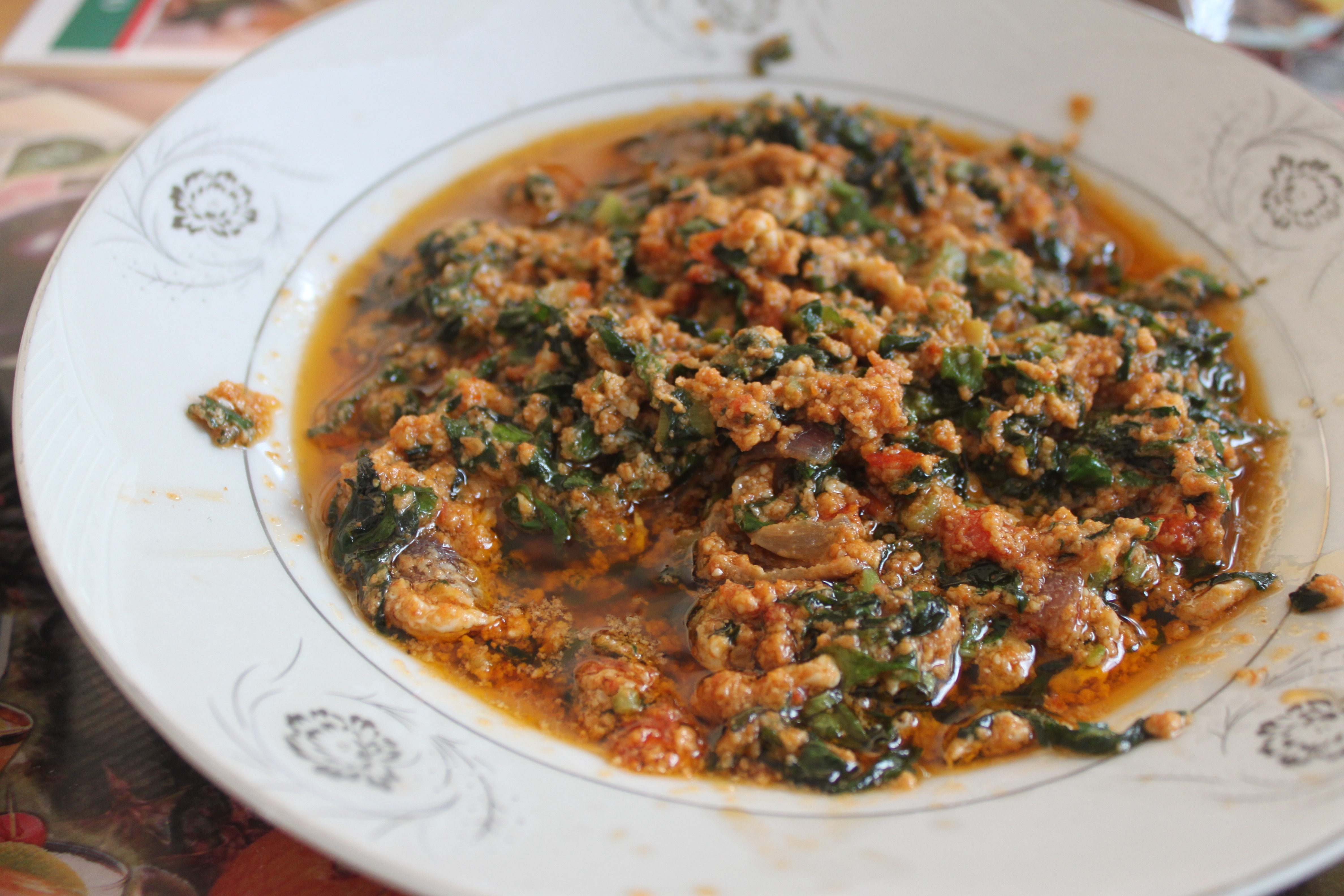 Of all the Ghanaian dishes we tried, I think this was my favorite. This version had egg in it, and was served w/ starchy little plantains called "apim". They tasted kind of like waxy potatoes and went very nicely w/ the sauce.